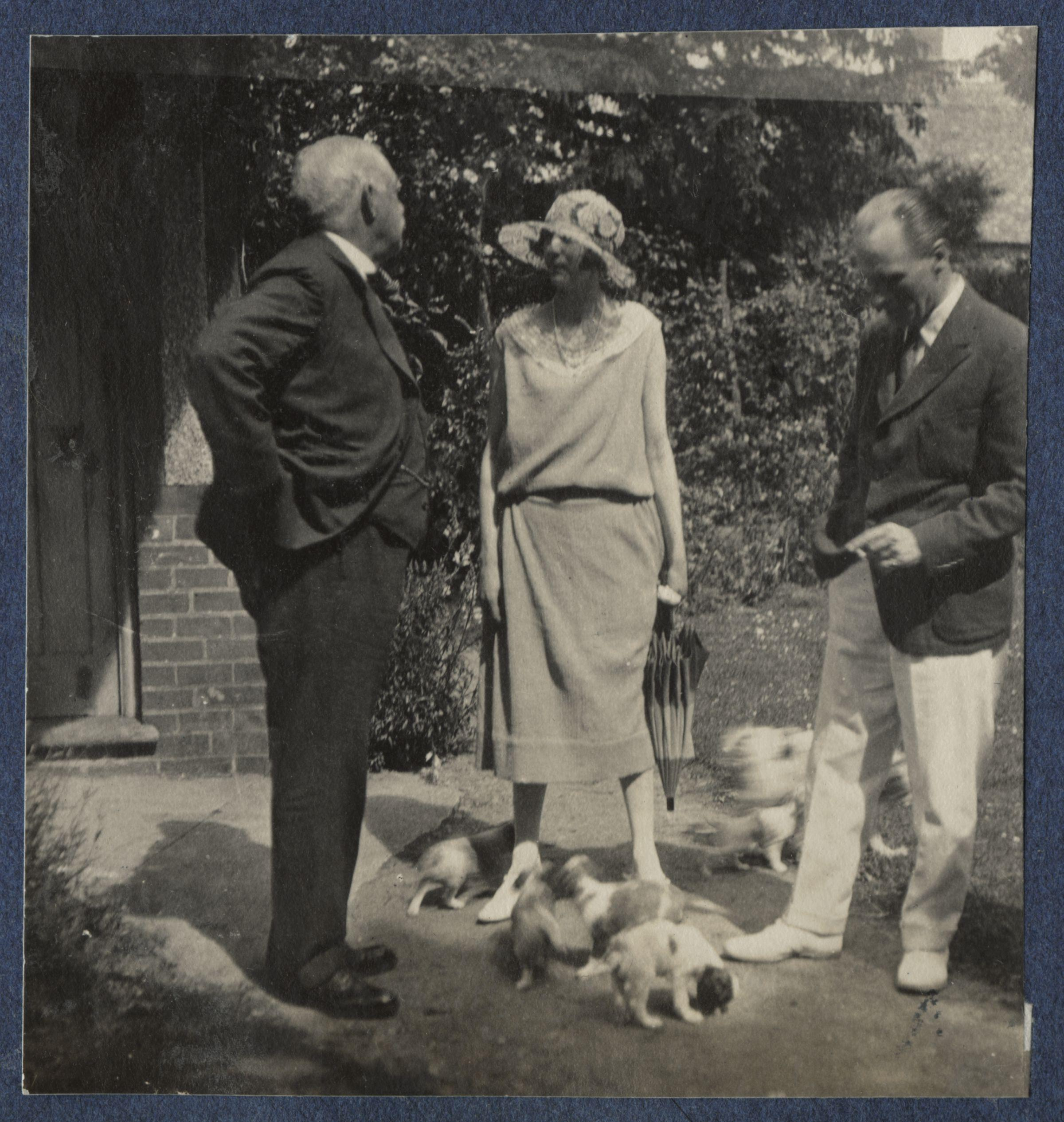 William Arthur Cavendish-Bentinck, 6th Duke of Portland; Rosamond Rose; unknown man, by Lady Ottoline Morrell (died 1938).